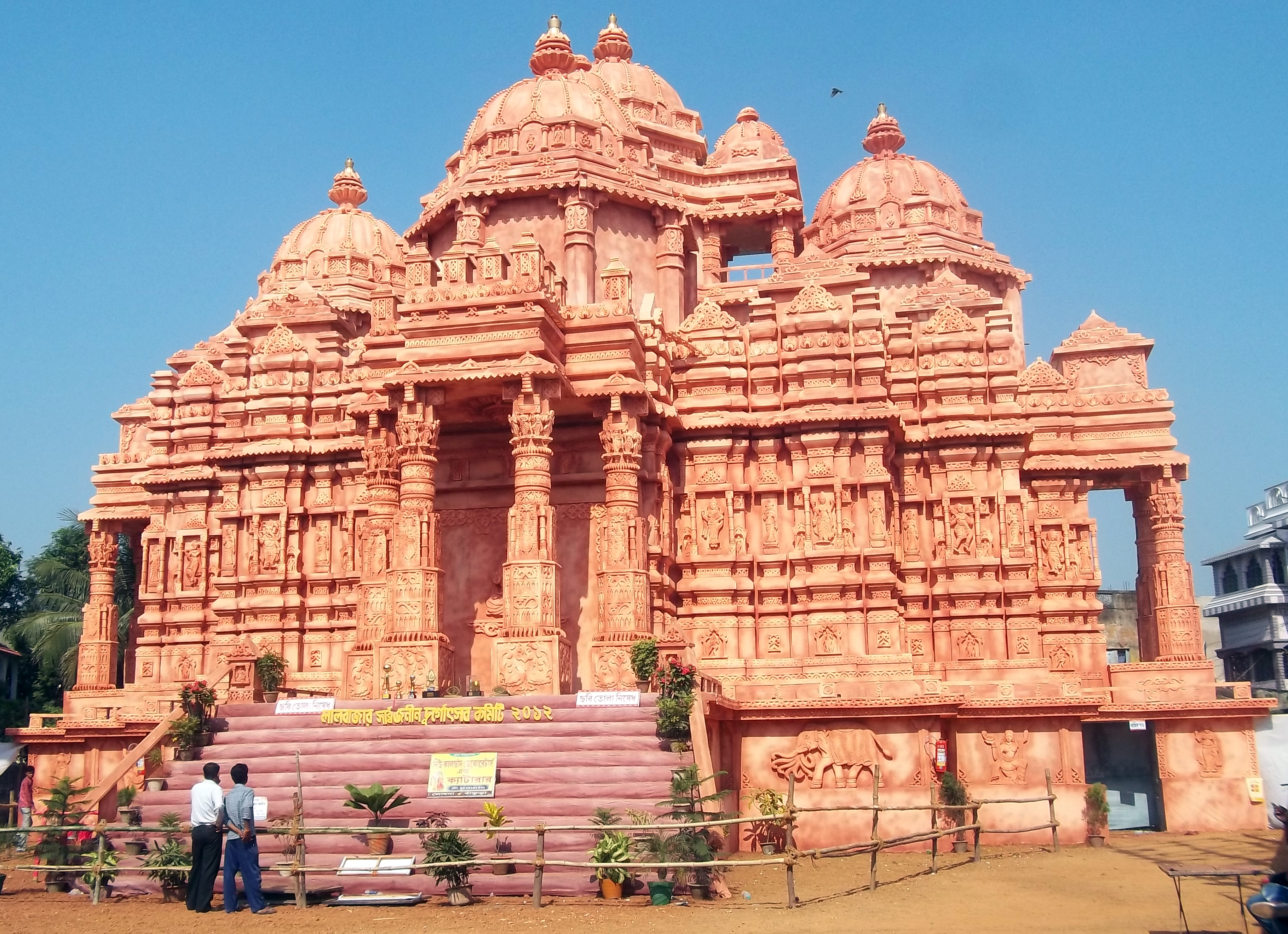 Durga puja Pandal in the year 2012 in Bankura